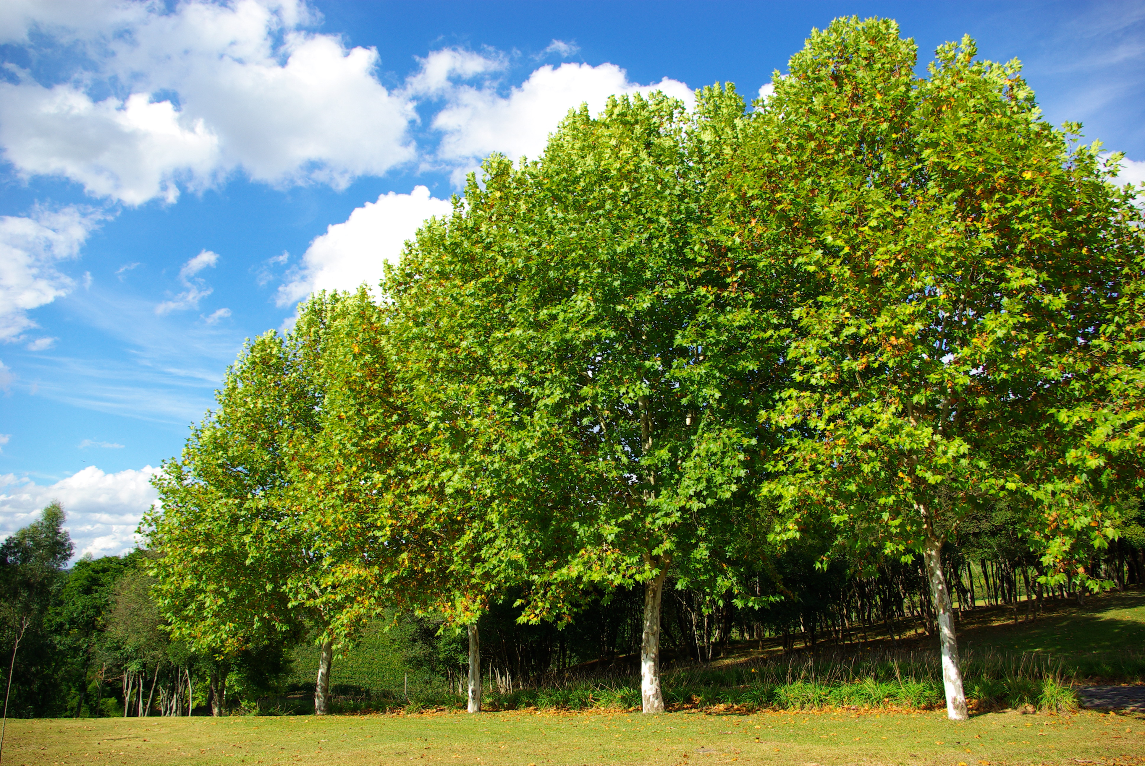 Platanus × hispanica trees in South America.